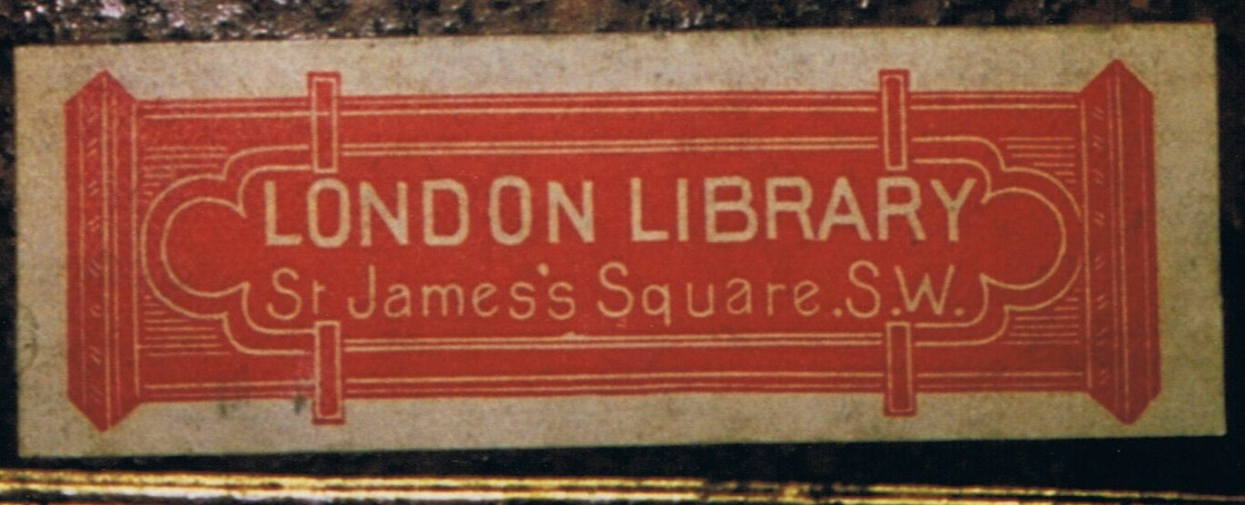 photo (R. de Salis, 2009) of a C19th London Library label.Rodolph (talk) 22:18, 25 November 2009 (UTC)